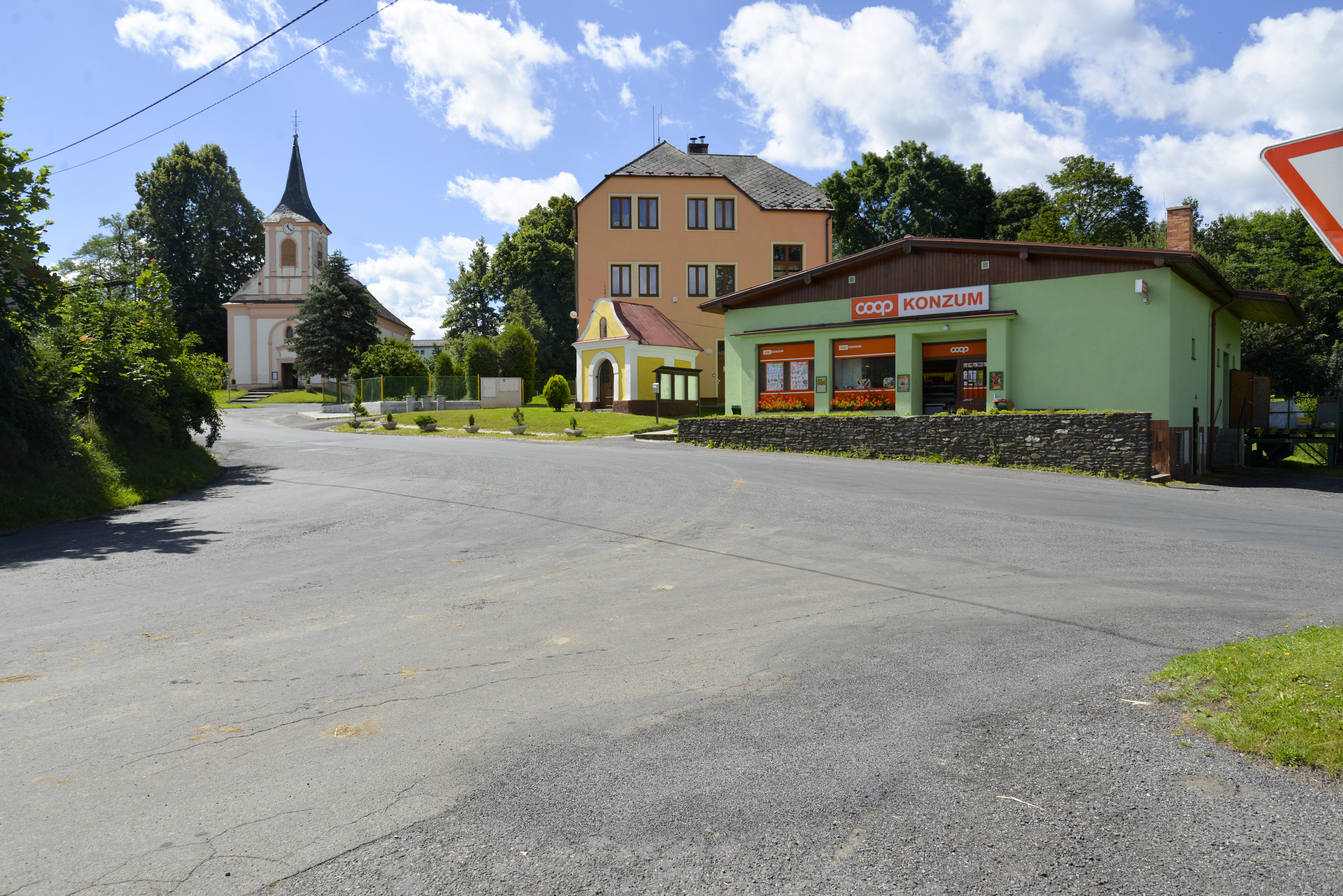 church, school, chapel and shop